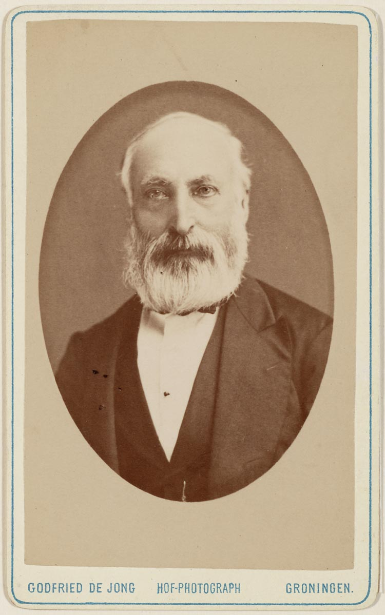 Anthony Winkler Prins (1817-1908). Text reads: "Godfried de Jong Hof-Photograph Groningen"